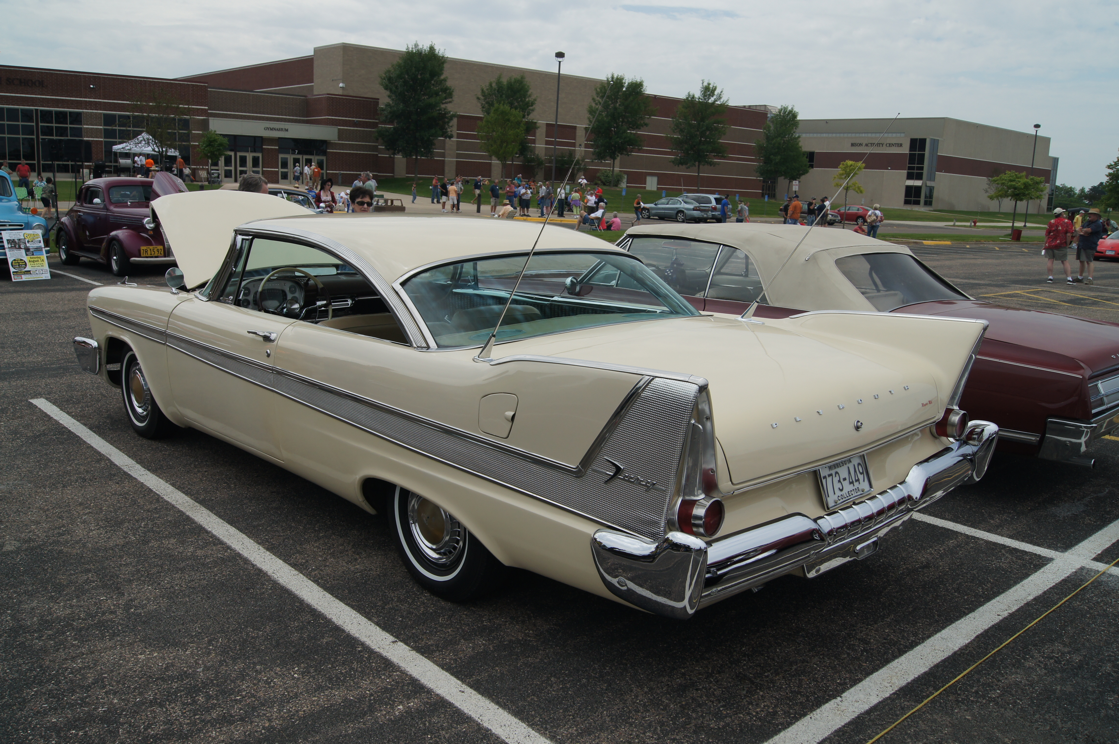 1957 Plymouth Fury 2-door hardtop28th Annual New London to New Brighton Antique Car Run Lunch Stop Buffalo High School Buffalo Minnesota Mile 78.8